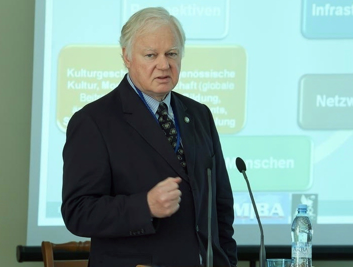 Prof. Dr. Dr. Bodo Abel